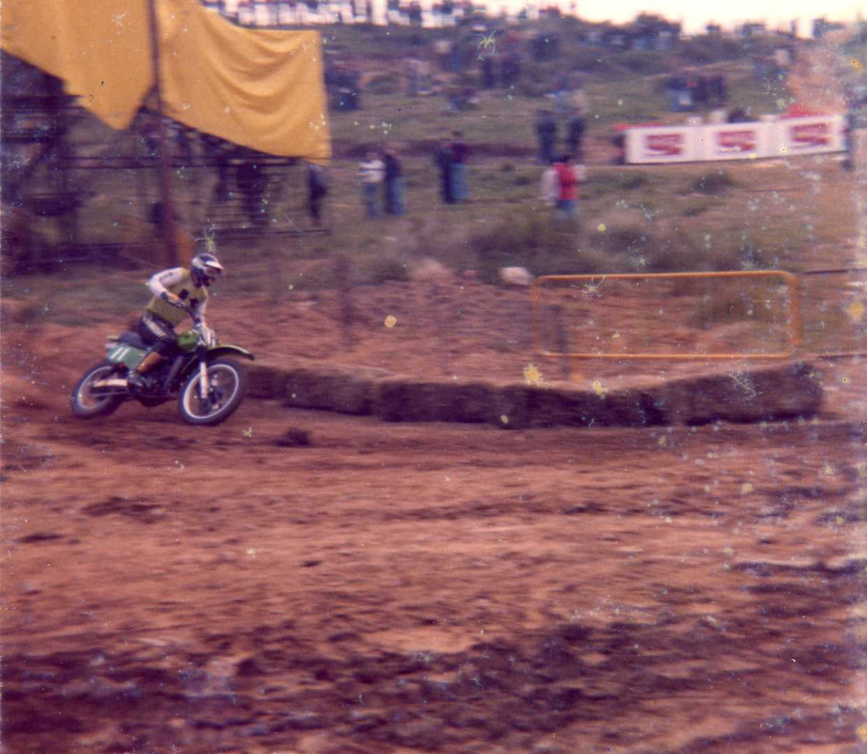 Torleif Hansen (Kawasaki) while practicing at Circuit del Vallès, Sabadell-Terrassa (Catalonia), during the 1978 spanish MX GP 250cc.